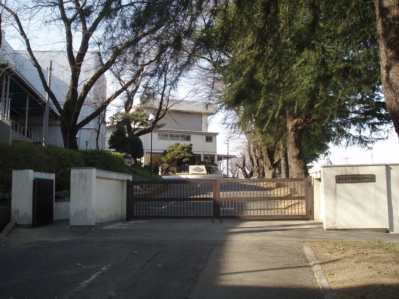 The east gate of Gunma Prefectural Kiryu Minami High School located in Kiryu, Gunma, Japan.